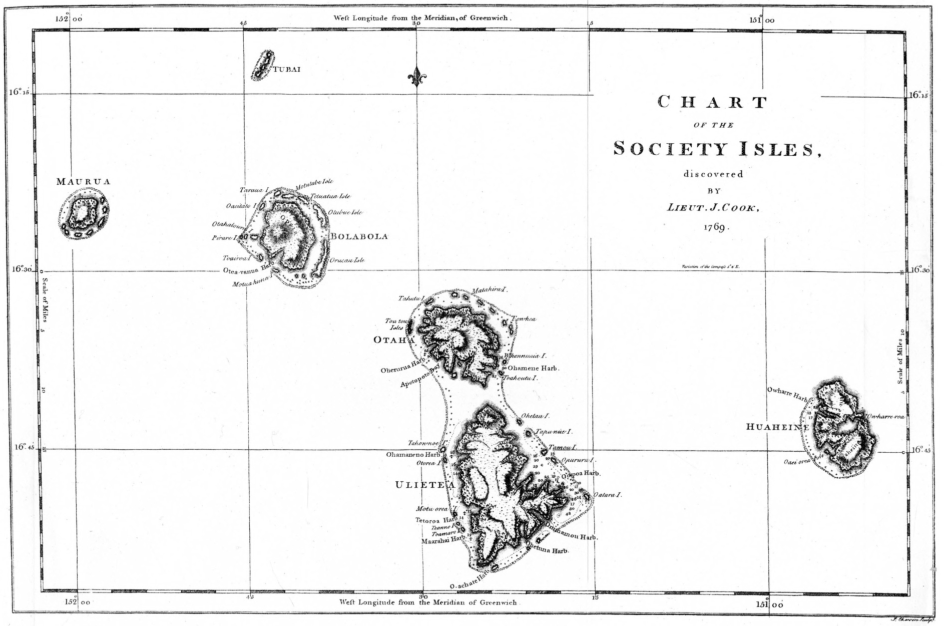 This is an image of a chart of the Society Isles by Captain (later Admiral Sir) James Cook